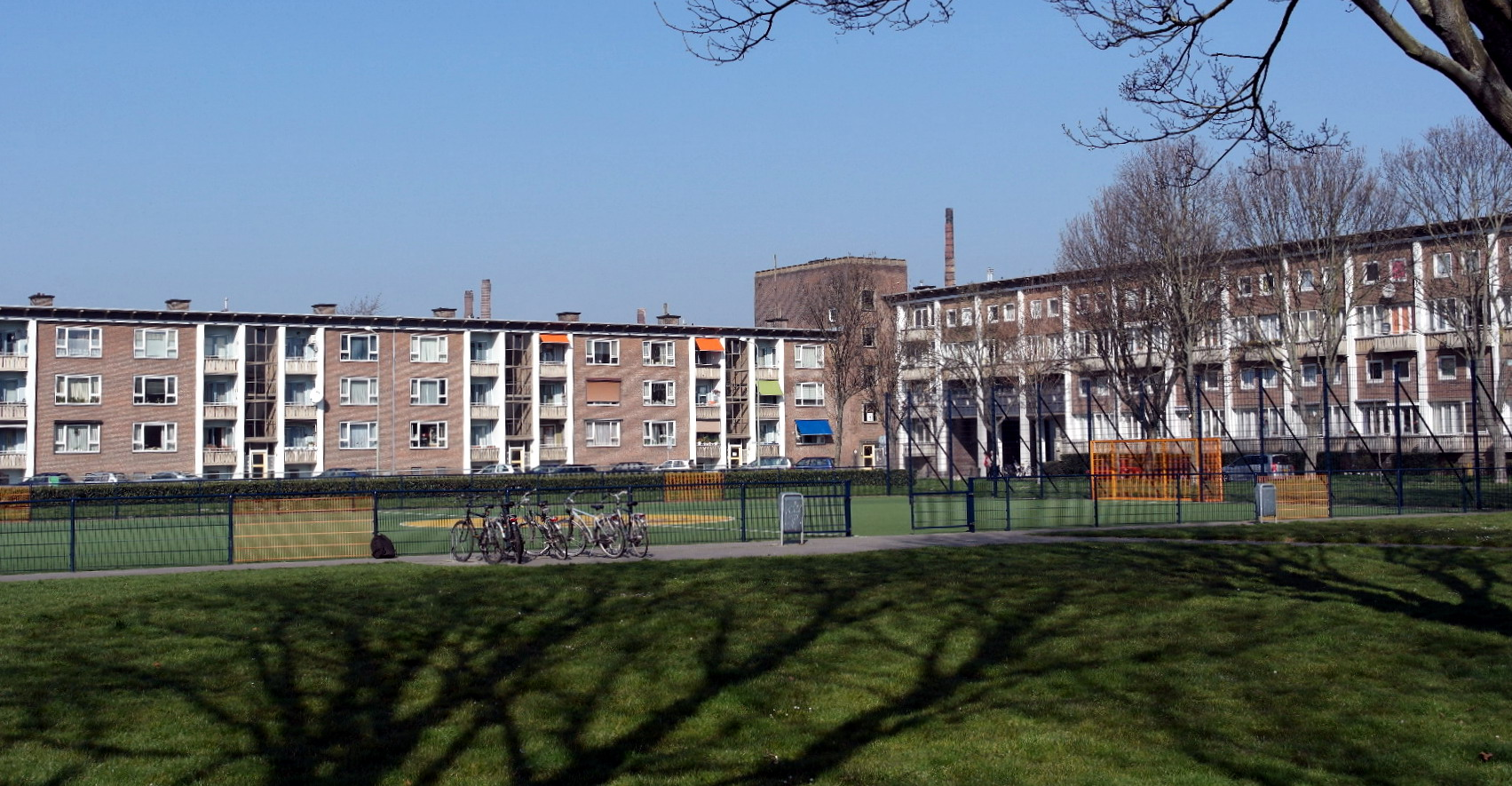 Maastricht, the Netherlands. View of Old Hickoryplein in the eastern neighbourhood of Wyckerpoort.